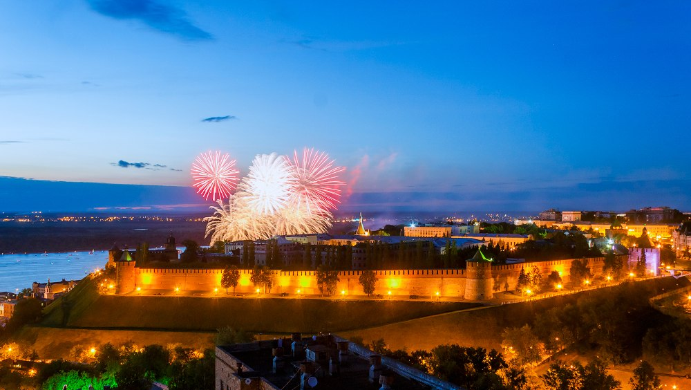 Fireworks in Nizhny Novgorod kremlin for Russia day and city day on 12th of June 2015